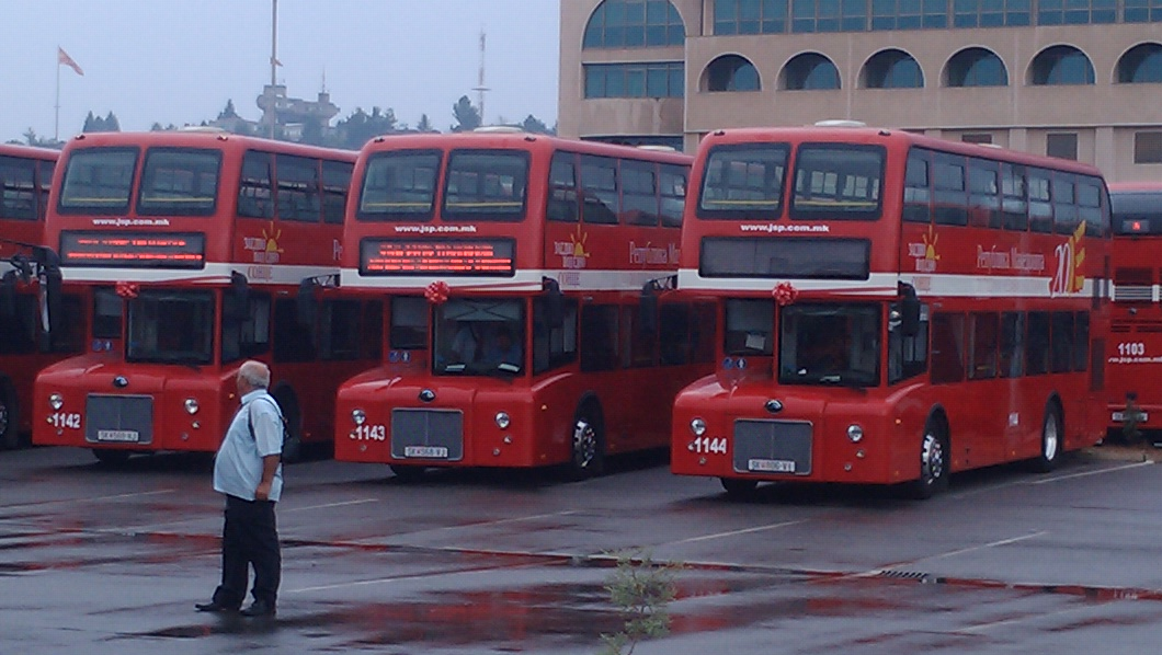 Double-decker buses specially designed for Skopje public transport